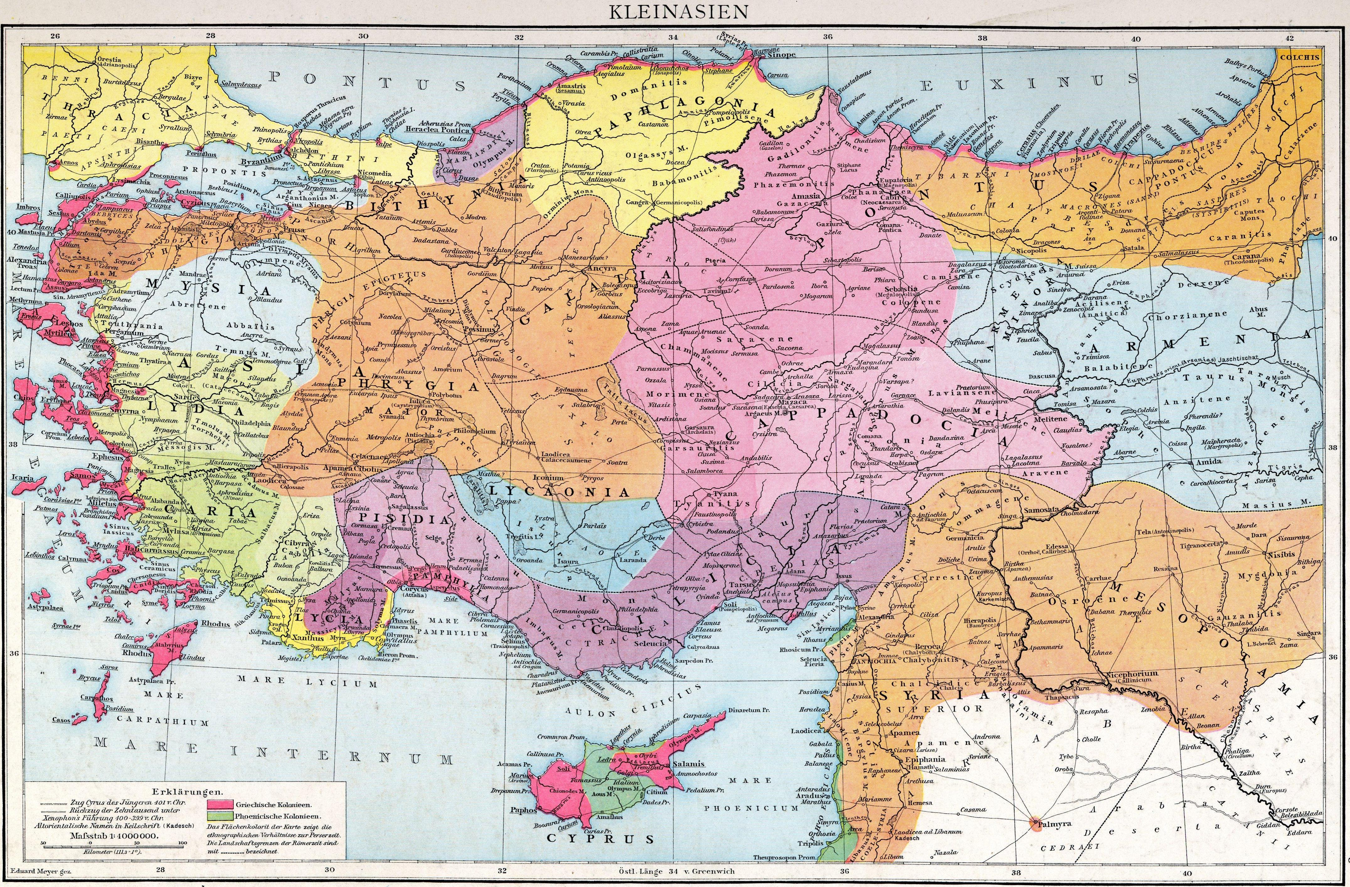 Roman provinces of the Asia Minor. (Map of the Historical Atlas of Gustav Droysen, 1886)